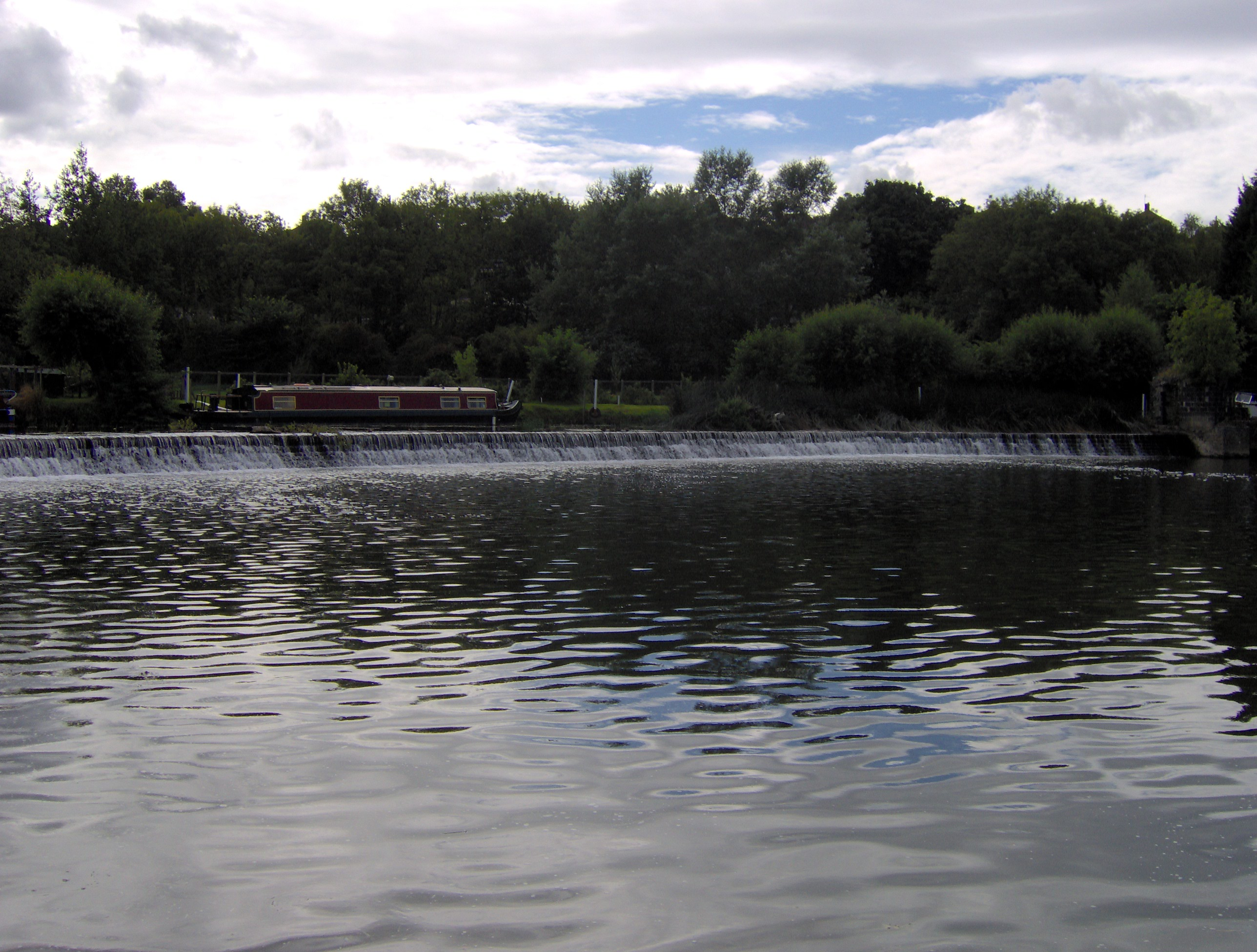 The weir at Kelston Lock. Taken by Rod Ward August 2006